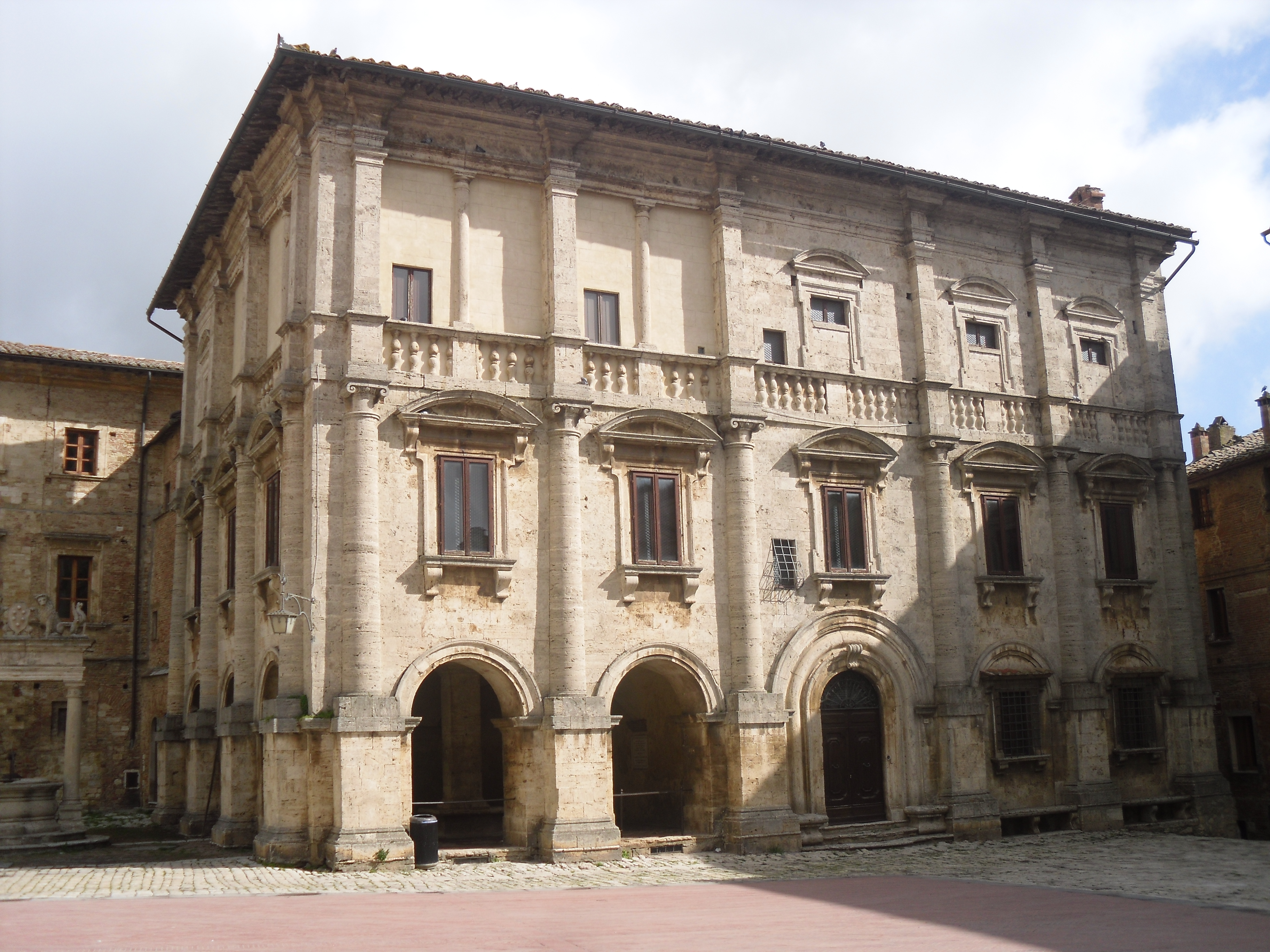 Palazzo Nobili-Tarugi, Montepulciano, Italy